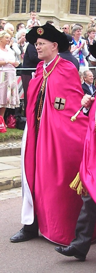 Patric Dickinson, Richmond Herald, in the robes of the Secretary of the Order of the Garter, in procession to St George's Chapel, Windsor Castle for the annual service of the Order of the Garter.